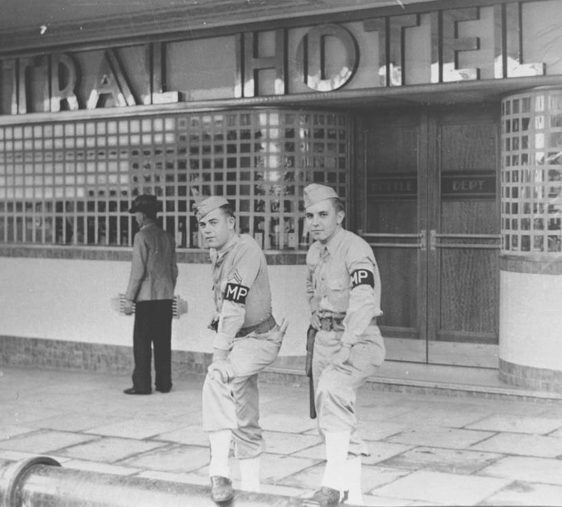 April 4, 1942. Unidentified U.S. military police outside the Central Hotel, Brisbane, Australia. The pipe on which they are resting their feet was installed during the war to carry sea water, for use in fighting fires, in the event of air raids.